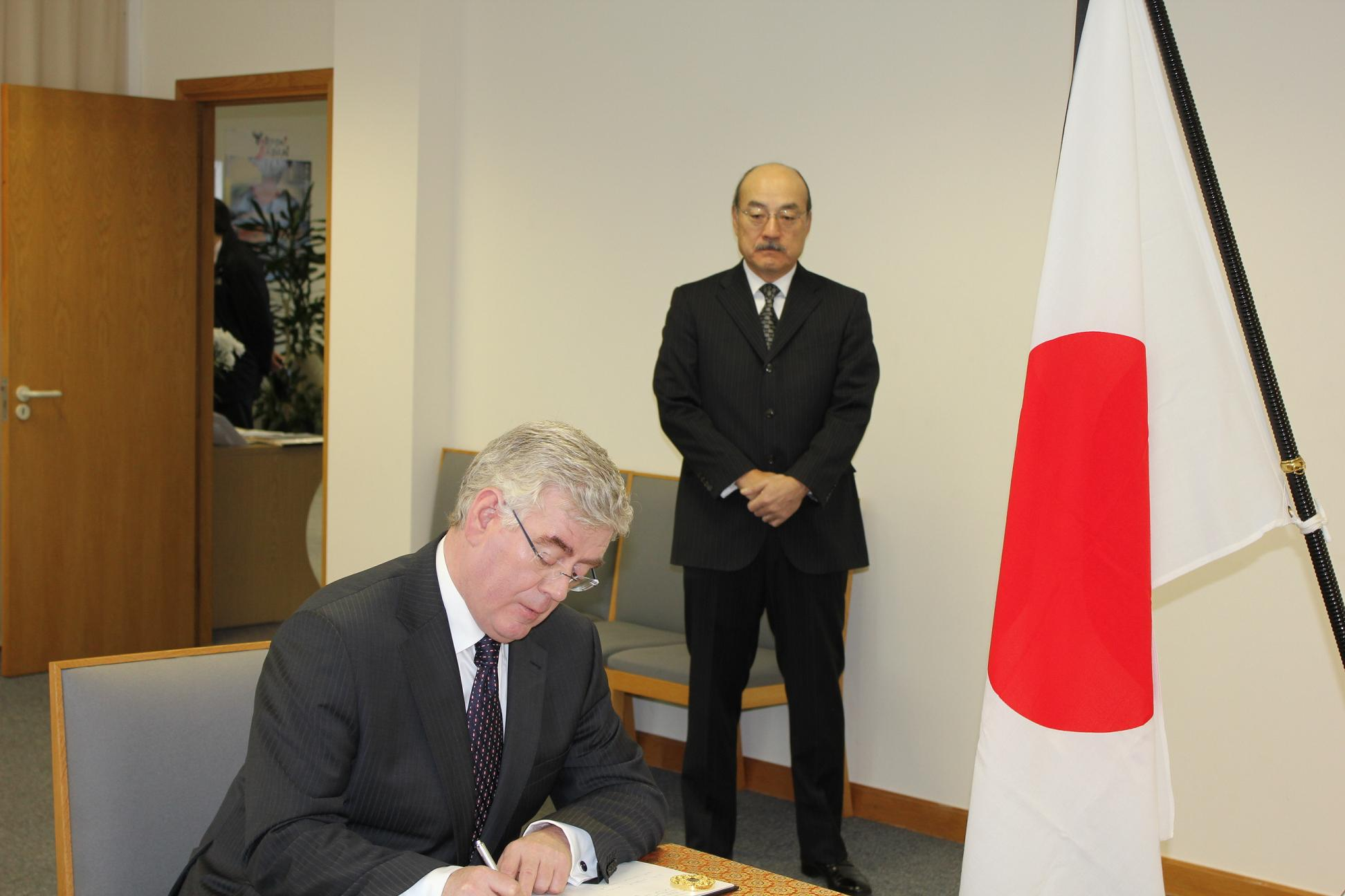 Eamon Gilmore, Tánaiste, visited the Embassy of Japan in Dublin, to sign a book of condolence for the victims of the Tōhoku earthquake and tsunami on March 24, 2011. Gilmore met with Toshinao Urabe, Ambassador to Ireland.(c.f. "アイルランド", 外務省: 「がんばれ日本！ 世界は日本と共にある」（世界各地でのエピソード集）: 欧州（西欧その1）, Ministry of Foreign Affairs of Japan.)